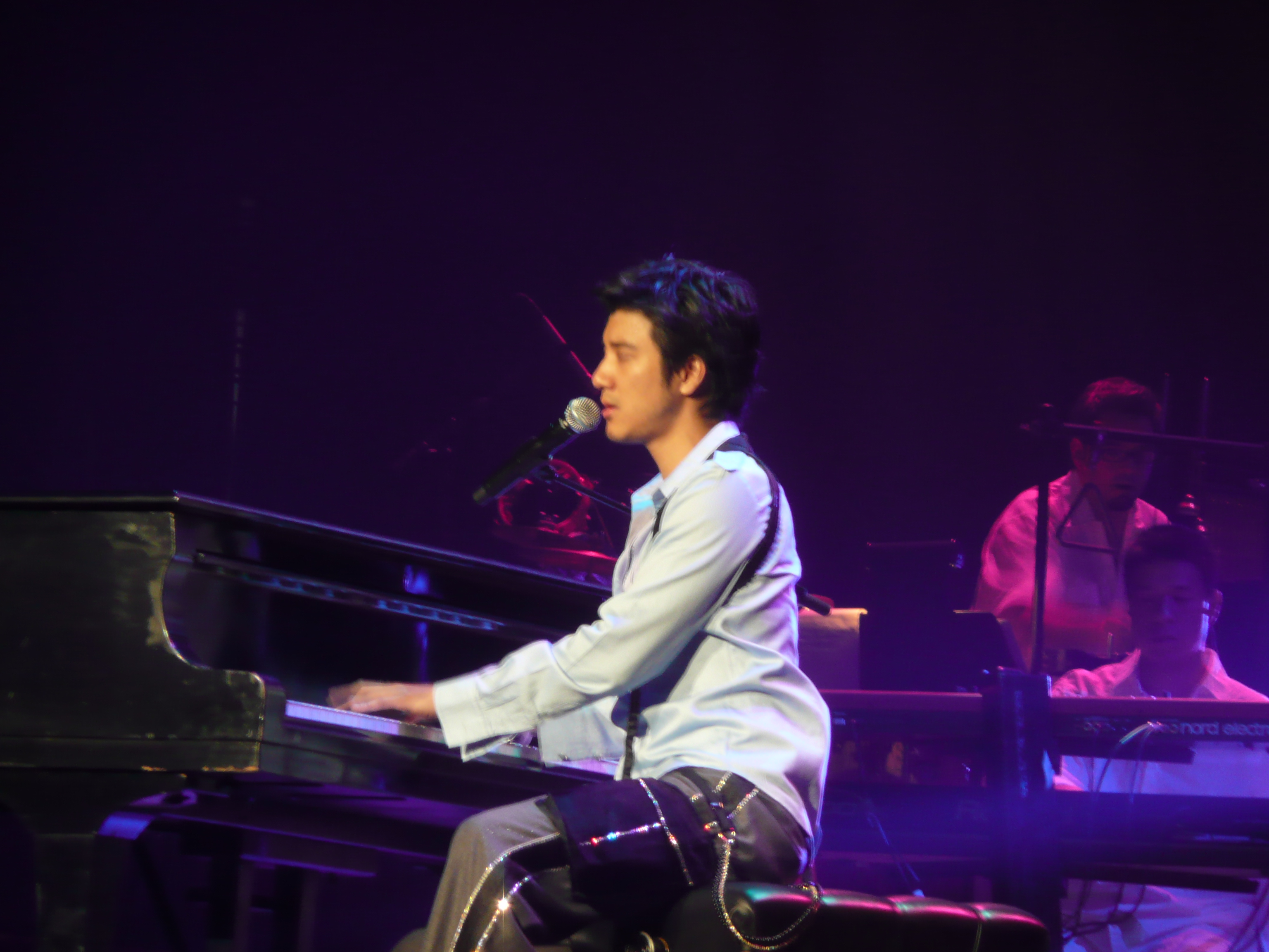 Leehom Wang playing the piano at the Christmas concert in Vegas 2007